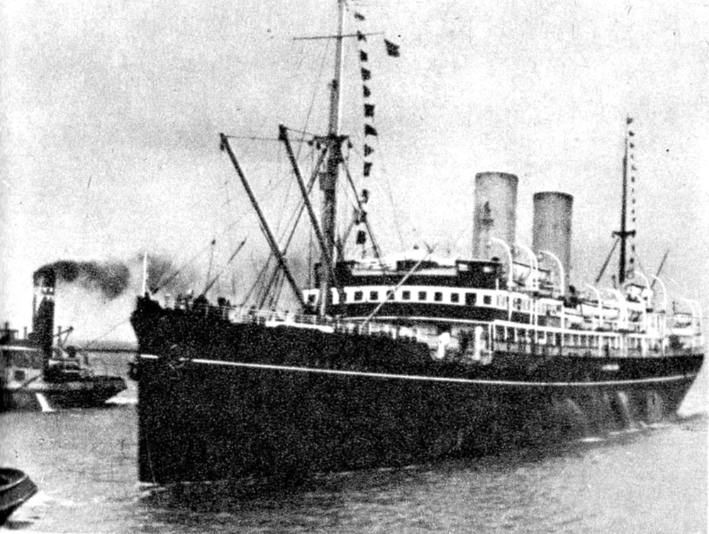 Old Polish passenger Ship SS Polonia entering port of Gdynia